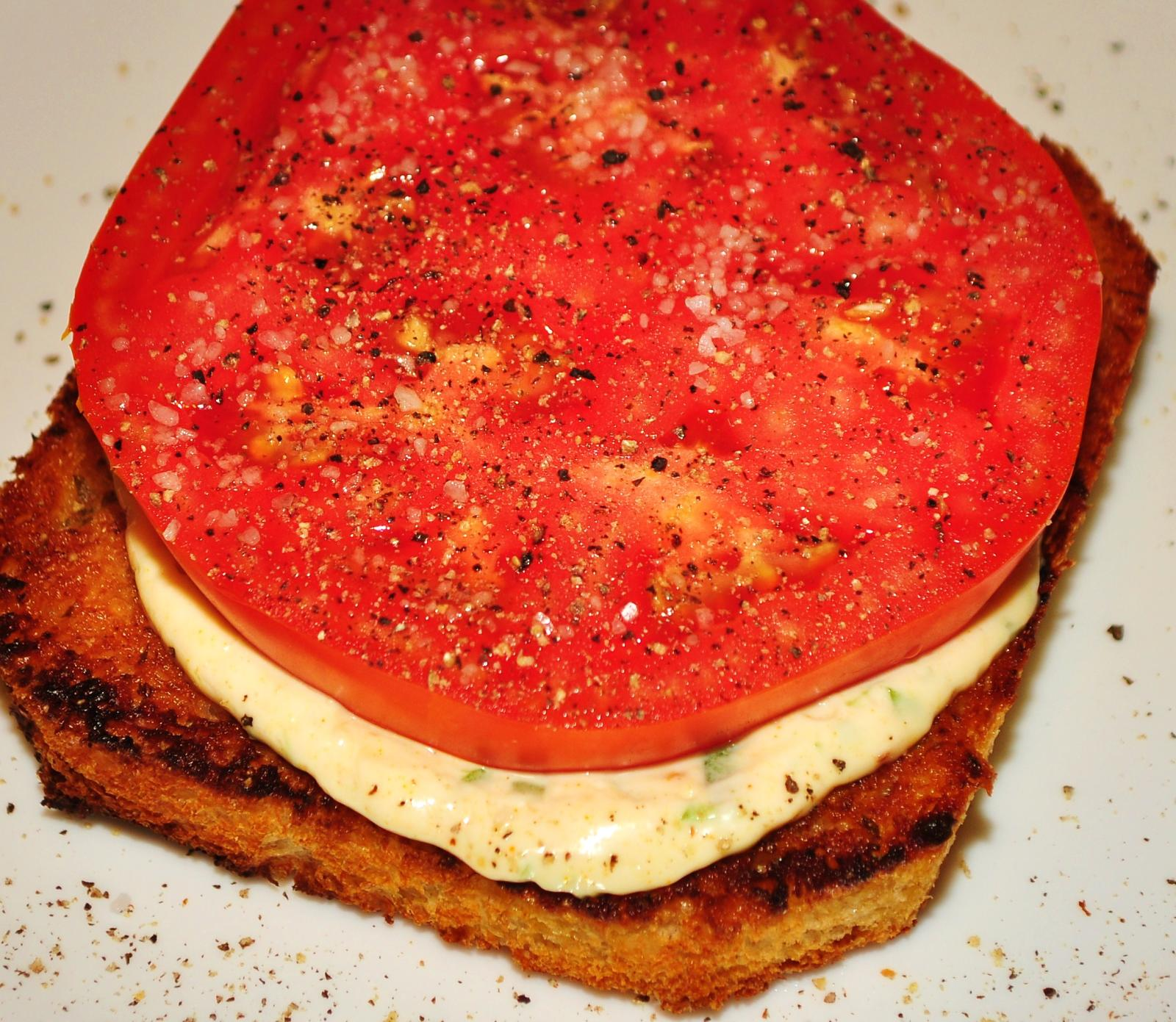 A sandwich prepared with fresh tomato